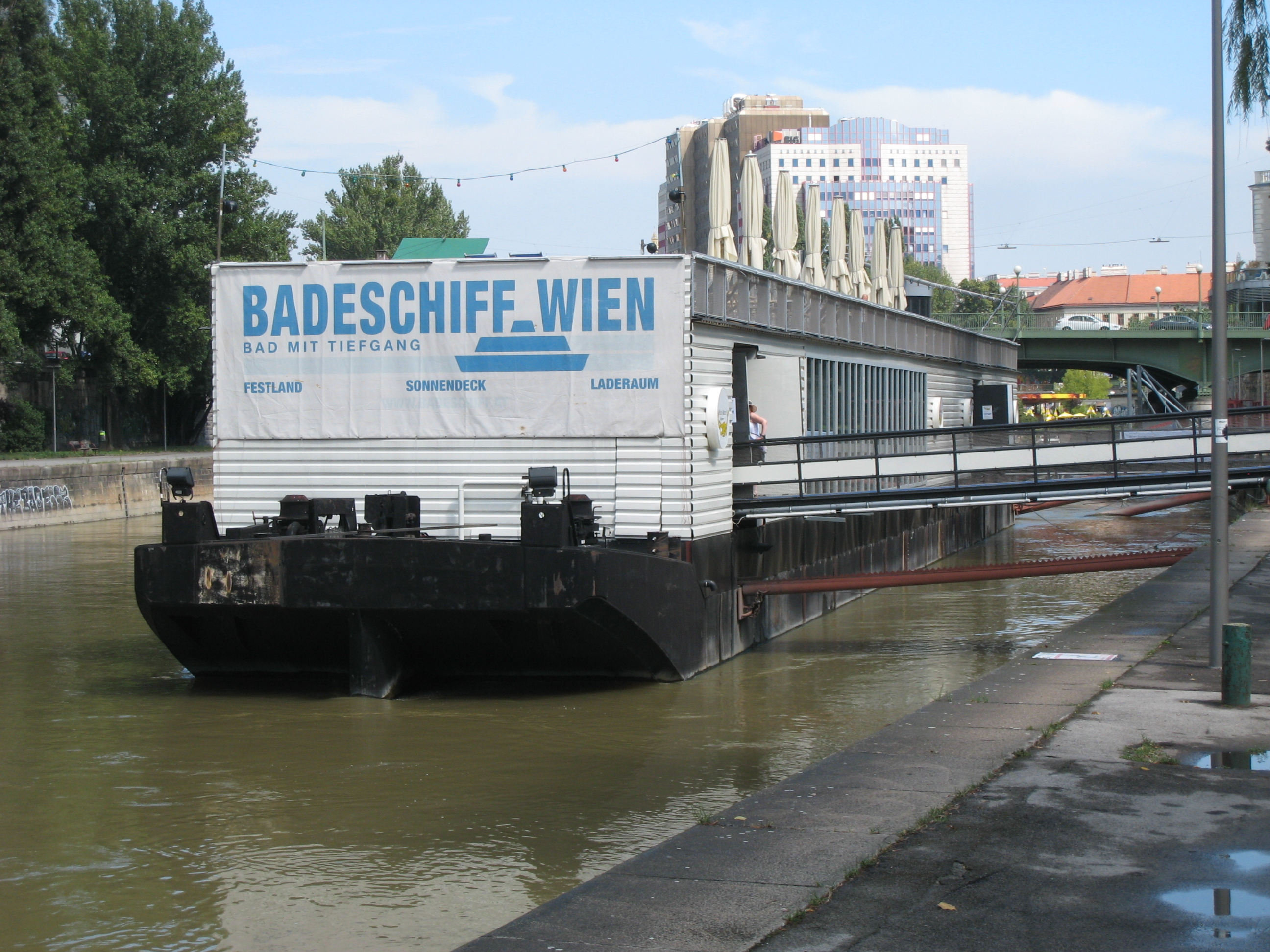 The "Badeschiff Wien" (Bathship Vienna) on the Donaukanal in Vienna, Austria